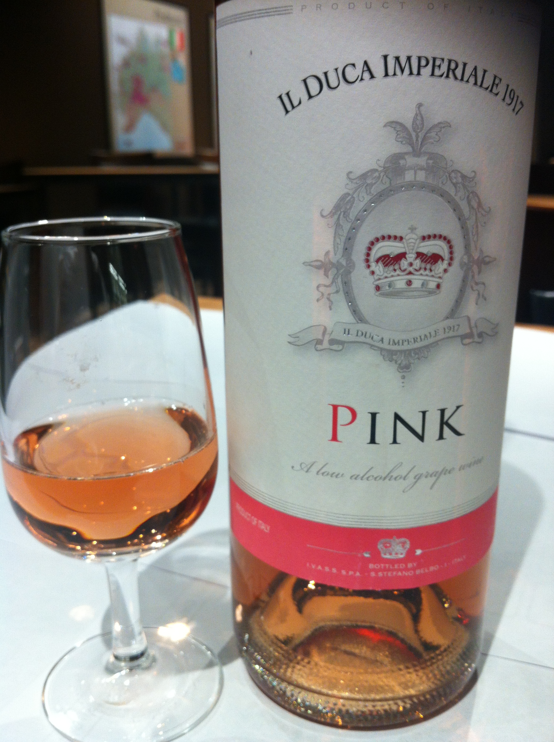 Rose Moscato d'asti wine from the Piedmont region of Italy